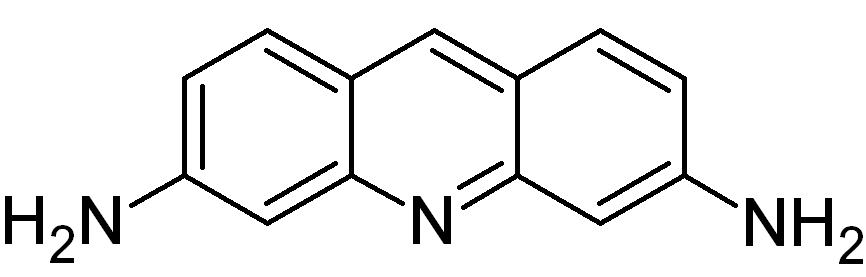 Chemical structure of proflavine. Image created by Karol Langner using XDrawChem